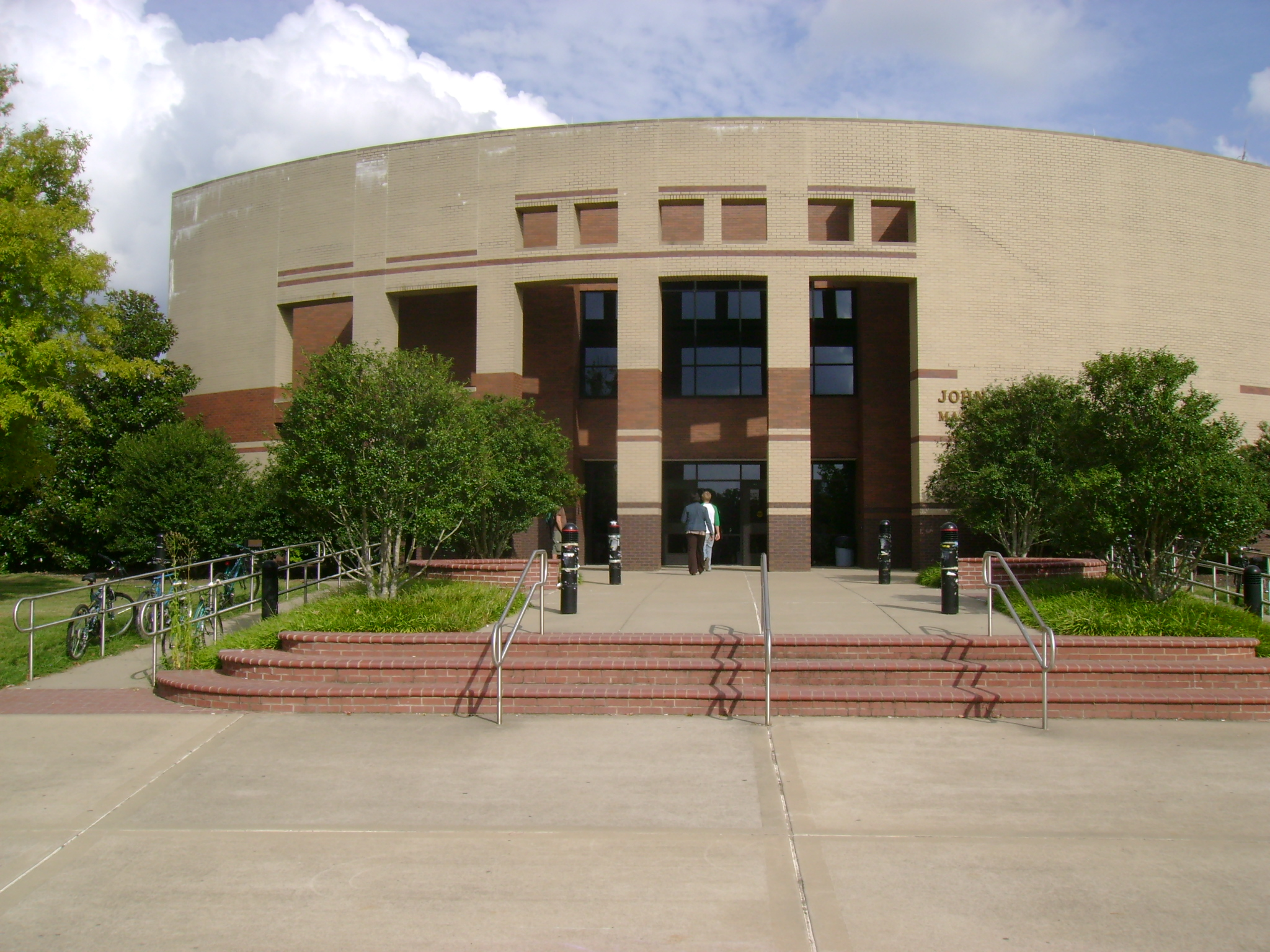 Picture of the John Bragg Mass Communications Building. The building houses the Recording Industry, Journalism, and Electronic Media Communication, as well as other mass communication departments.